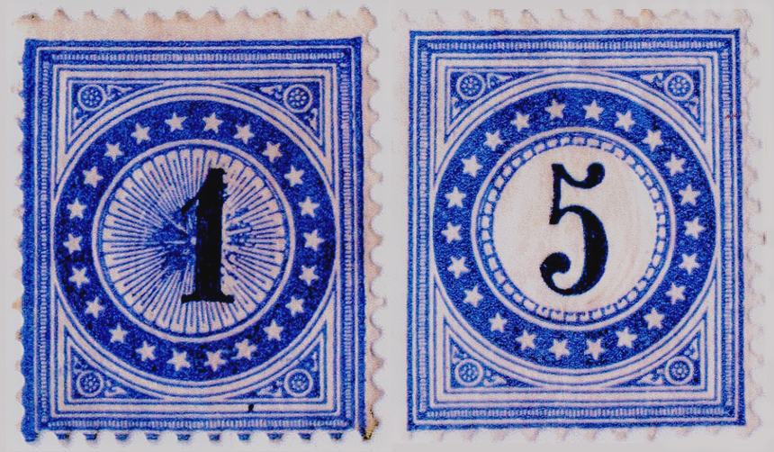 Postage due stamps of Switzerland, first issue, 1 and 5 centimes, 1878.